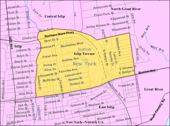 U.S. Census 2000 reference map for Islip Terrace